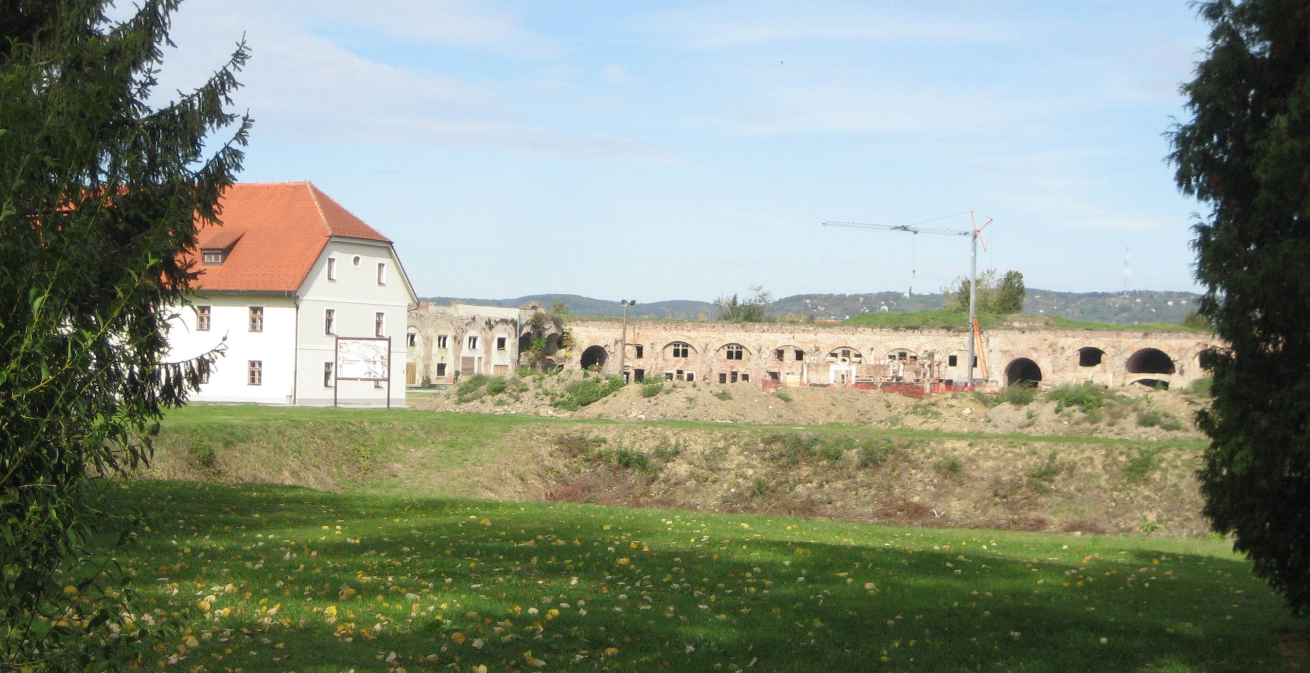 Fortress Brod